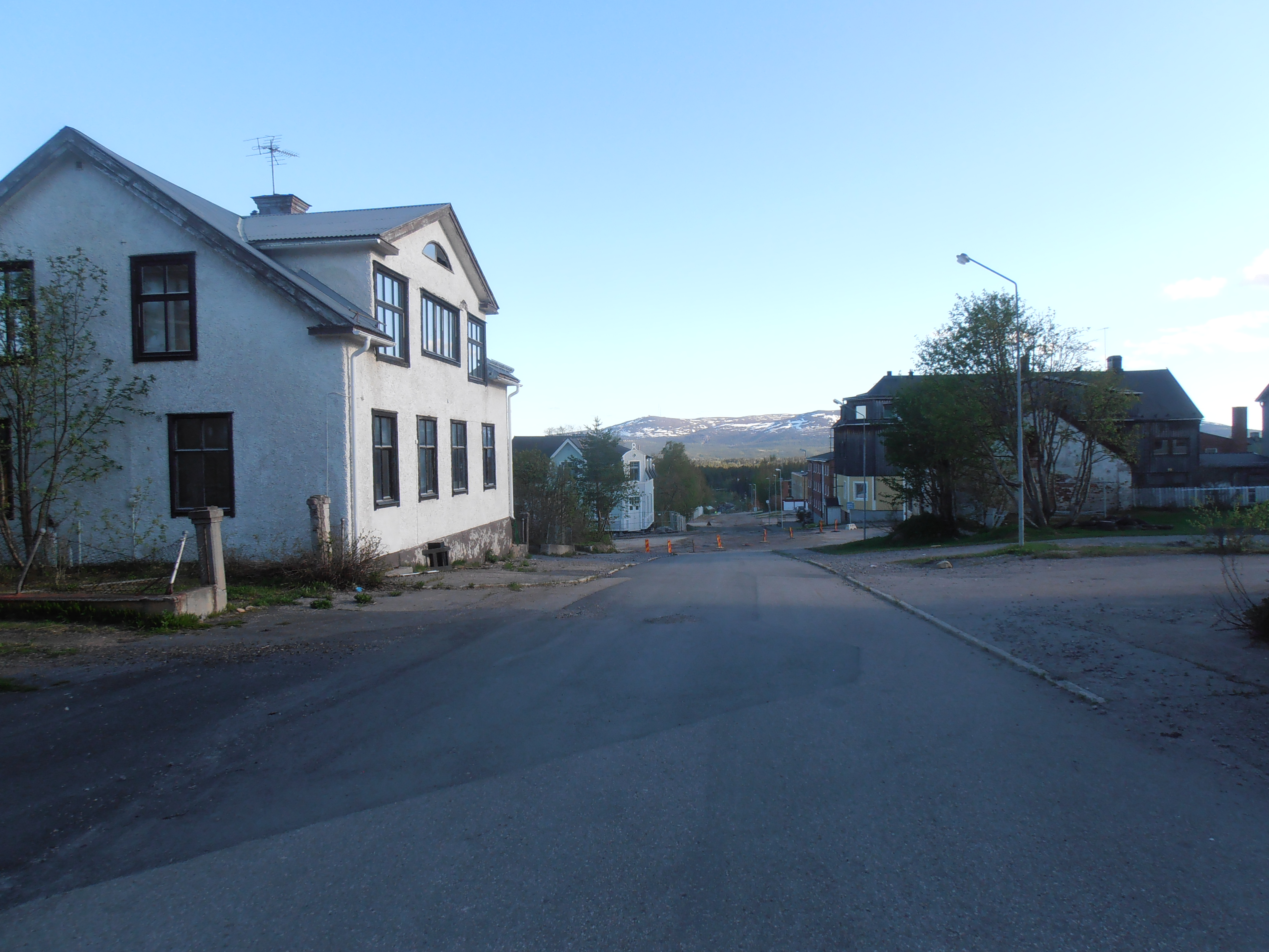 Skolgatan in Malmberget